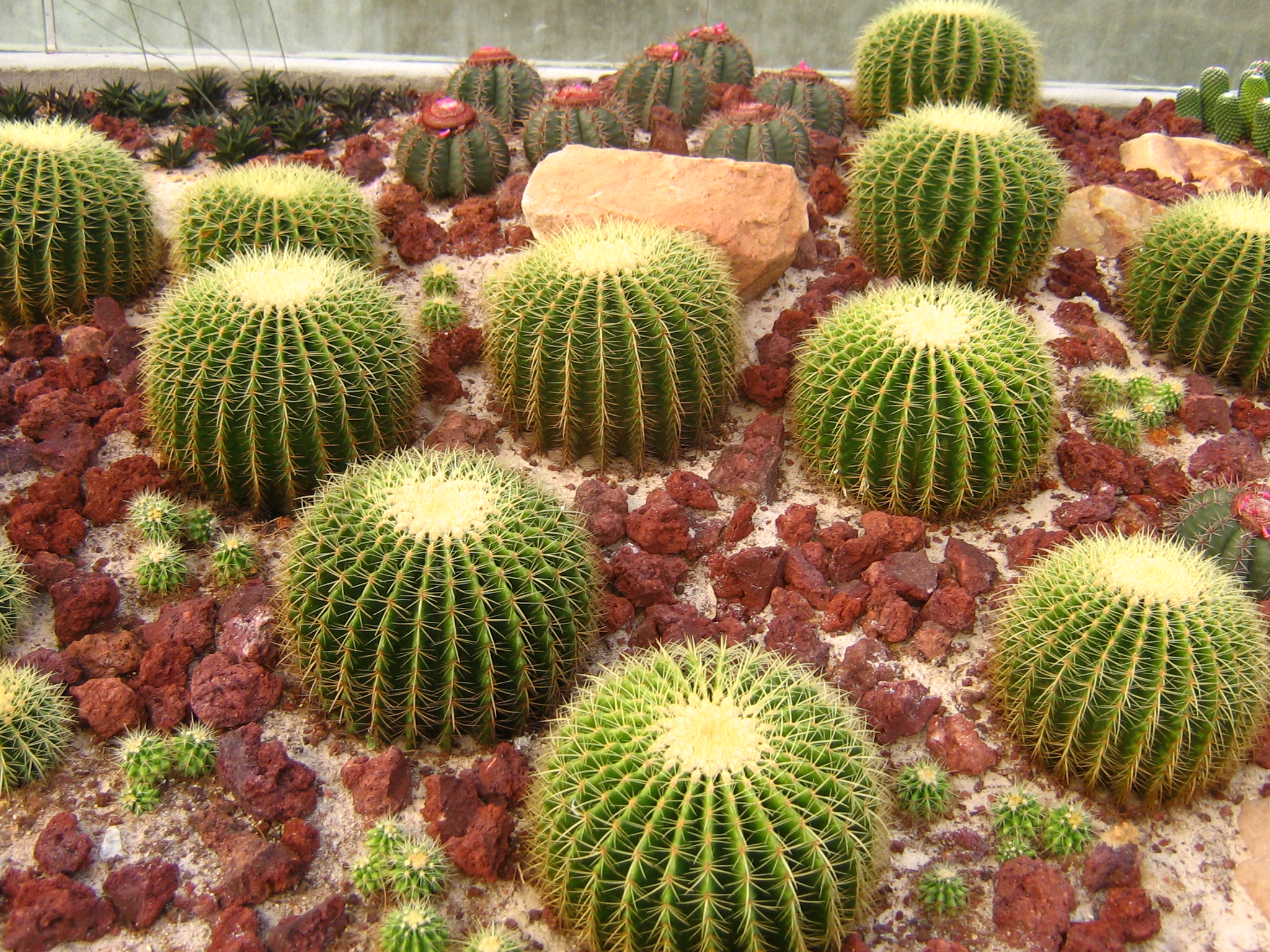 Echinocactus grusonii cacti in the Cactus Gardens at the Singapore Botanic Gardens.